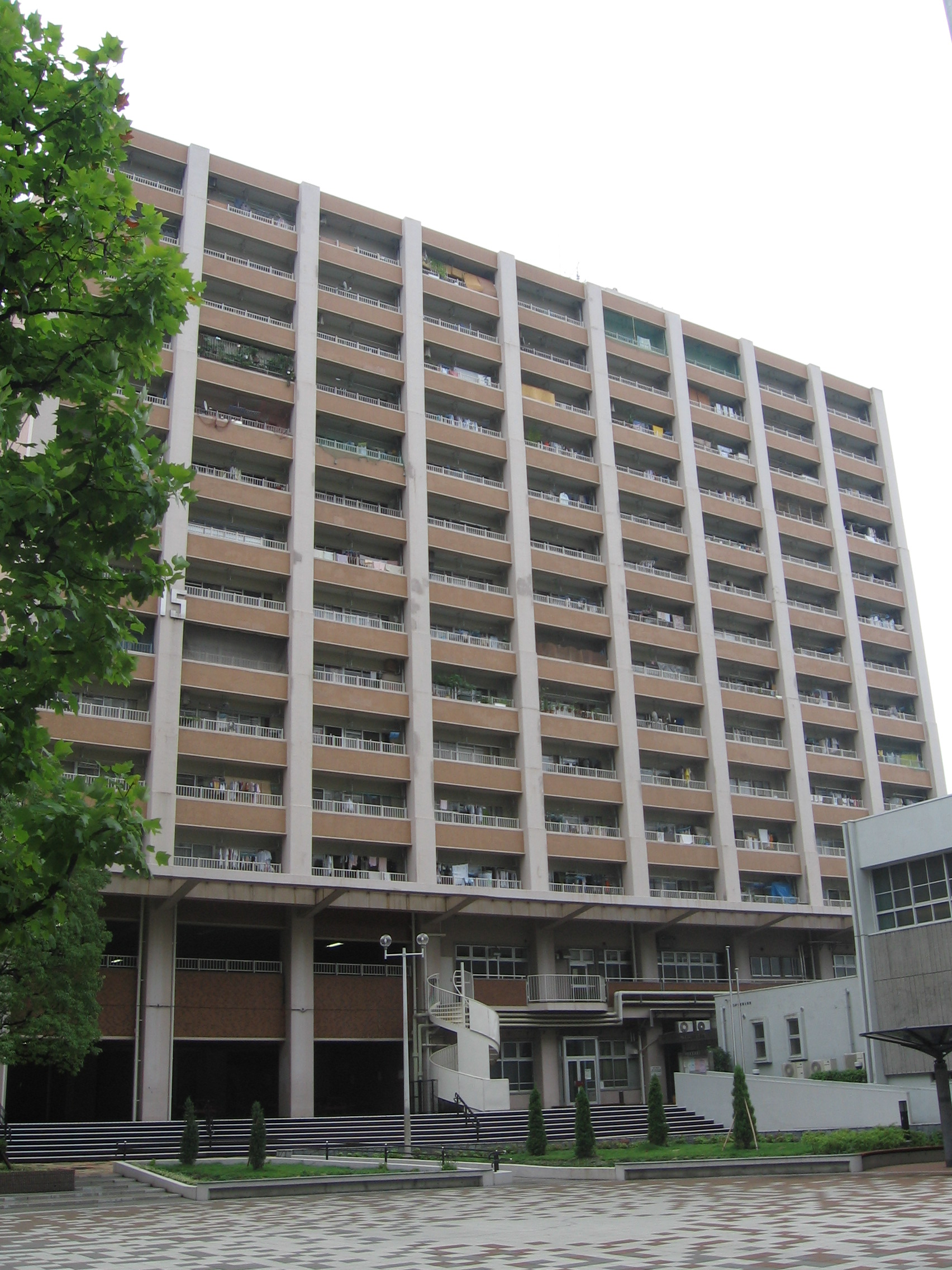 Hall of Shibazono cho in Kawaguchi City,Japan.